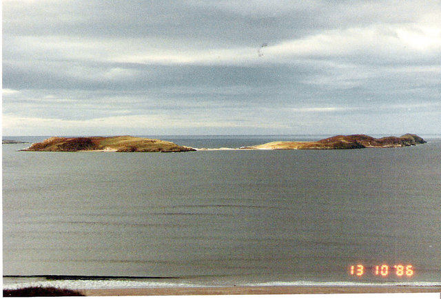 Rabbit Islands, Tongue bay, Sutherland, Scotland Viewed from the mainland Coldbackie carpark. The islands to the right apply to this square.